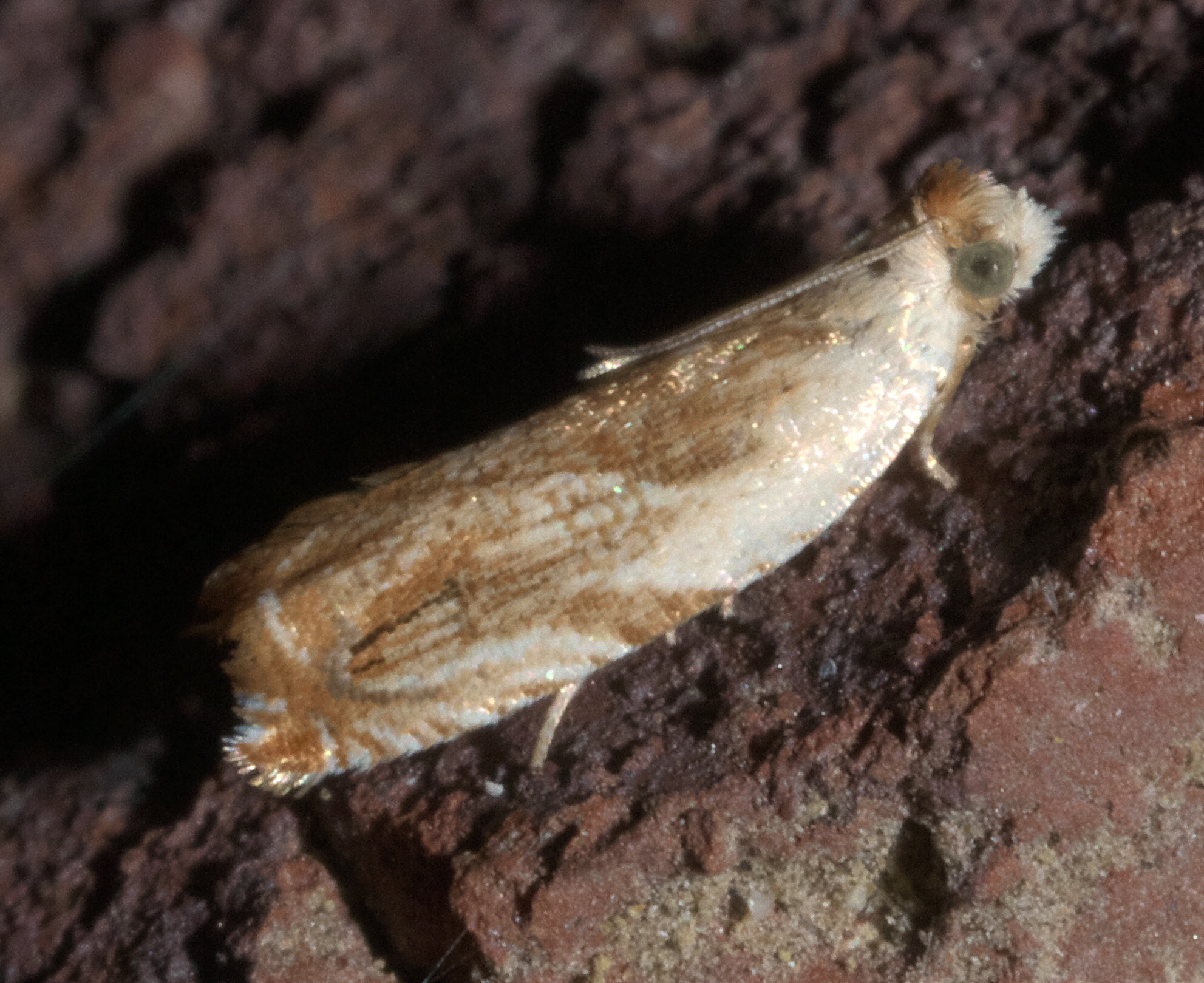 Ancylis platanana, Hodges #3370, Size: 5.8 mm, ID Confidence: 88